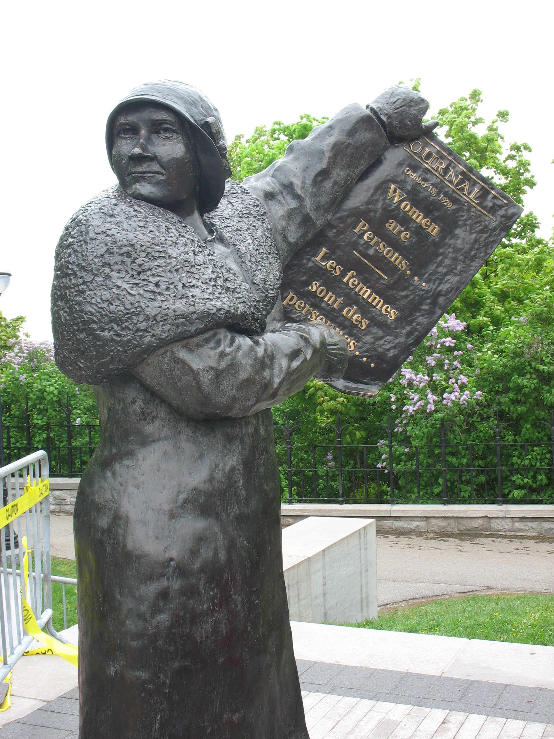 Fragment of The Famous Five Monument at the Parliamentary Hill in Ottawa.